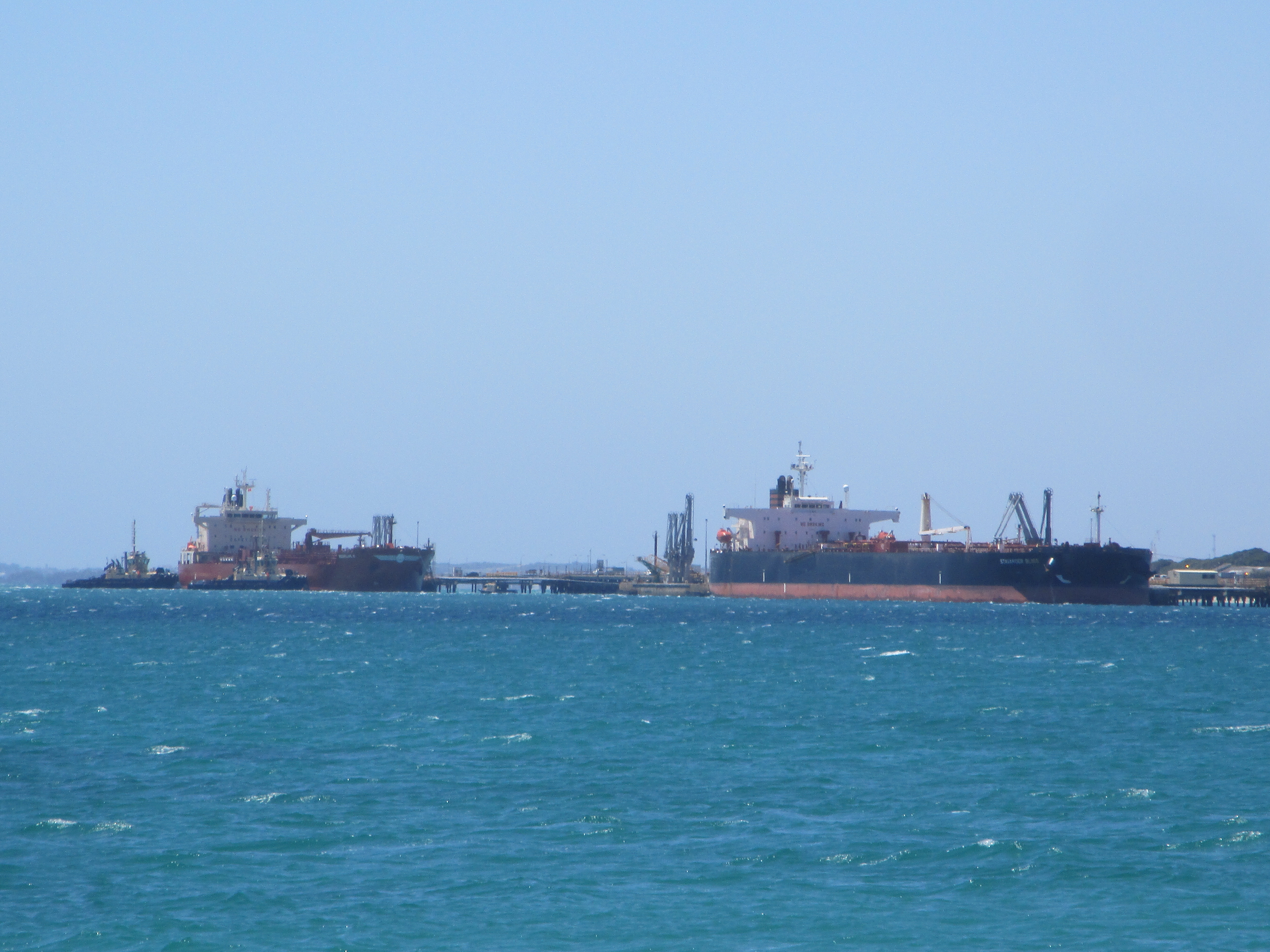 BP Oil Refinery Jetty, Kwinana, Western Australia. The ship on the right is the Stavanger Bliss (IMO 9364239), the ship on the left is the Resolve II (IMO 9849253).